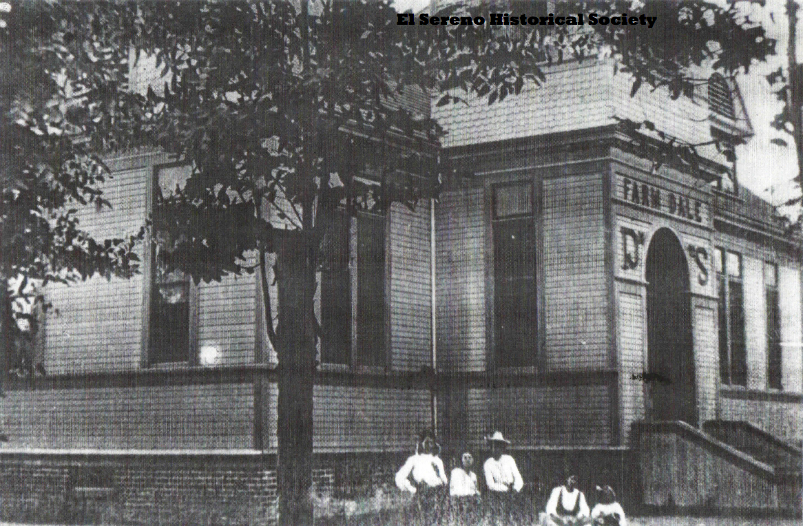 Five people in front of the Farmdale School, 1904, in an area where El Sereno, is today